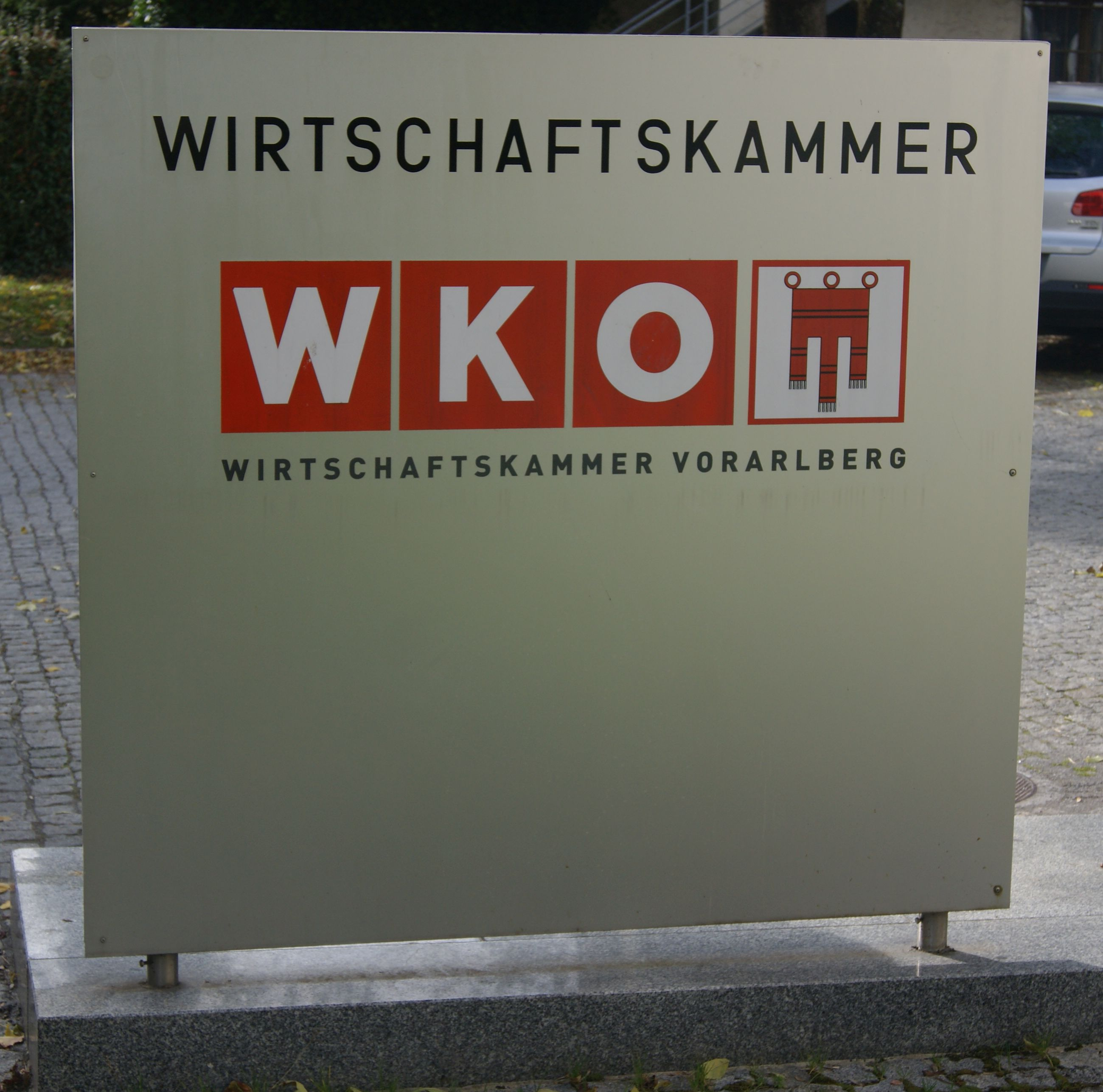 Sign (logo) in front of the building of the Vorarlberg Chamber of Commerce in the Wichnerstrasse 6 in 6800 Feldkirch, Vorarlberg, Austria.